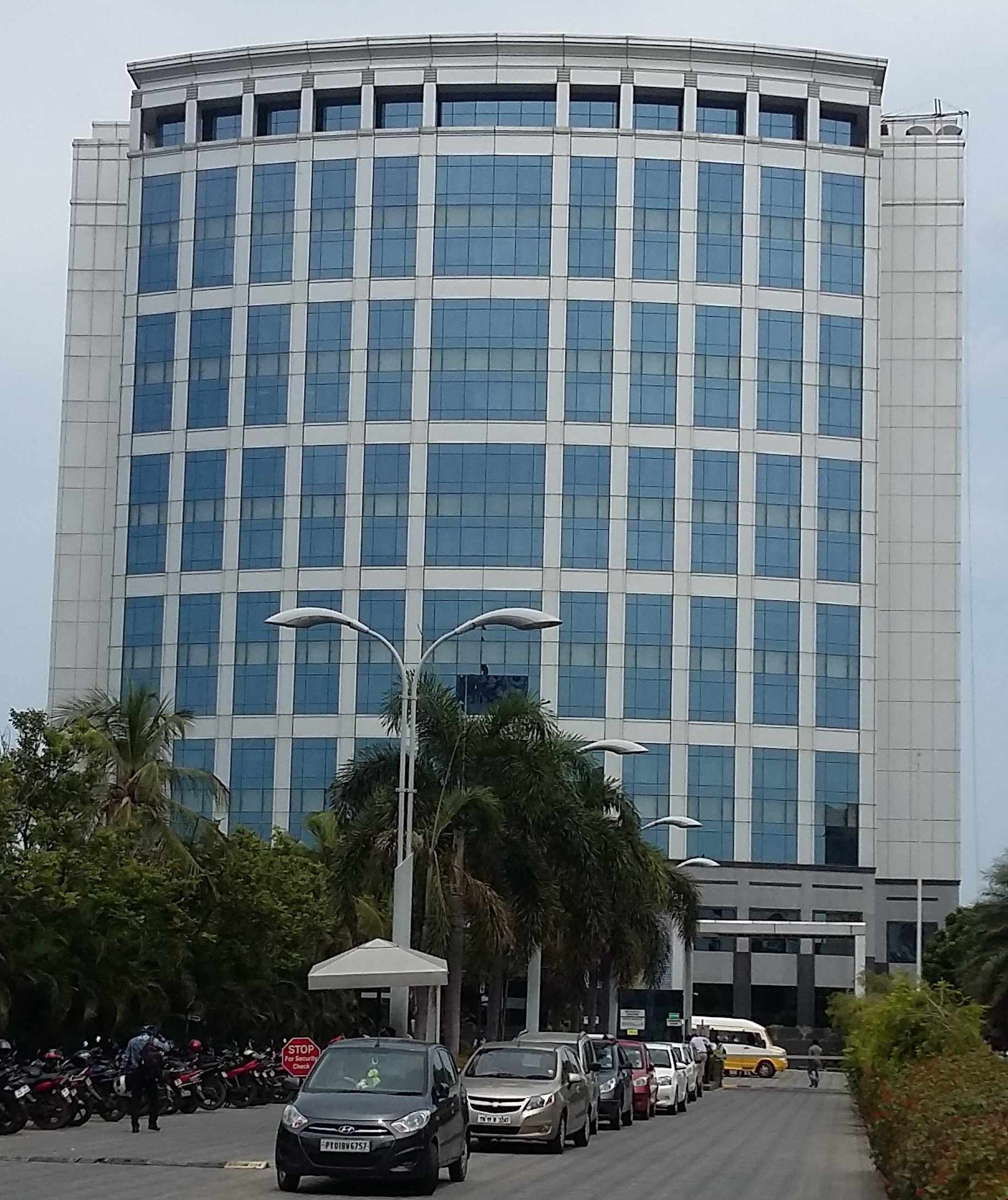 This is the Prince Infocity II building in Chennai